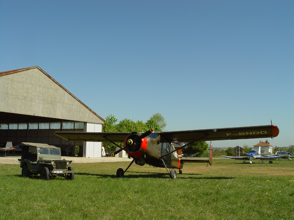 Max Holste MH-1521 Broussard 240 F-BNDD Chatillon sur Seine 04-2007